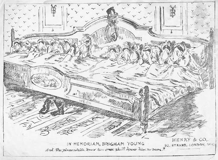 Brigham Youngs 12 widows lament. Caricature in a newspaper about Mormon polygamy. Text:"In memoriam Brigham Young. And the place which knew him once shall know him no more" It references the apocryphal "long bed" story (and illustration) found in chapter 15 of Mark Twain's 1872 book Roughing It.